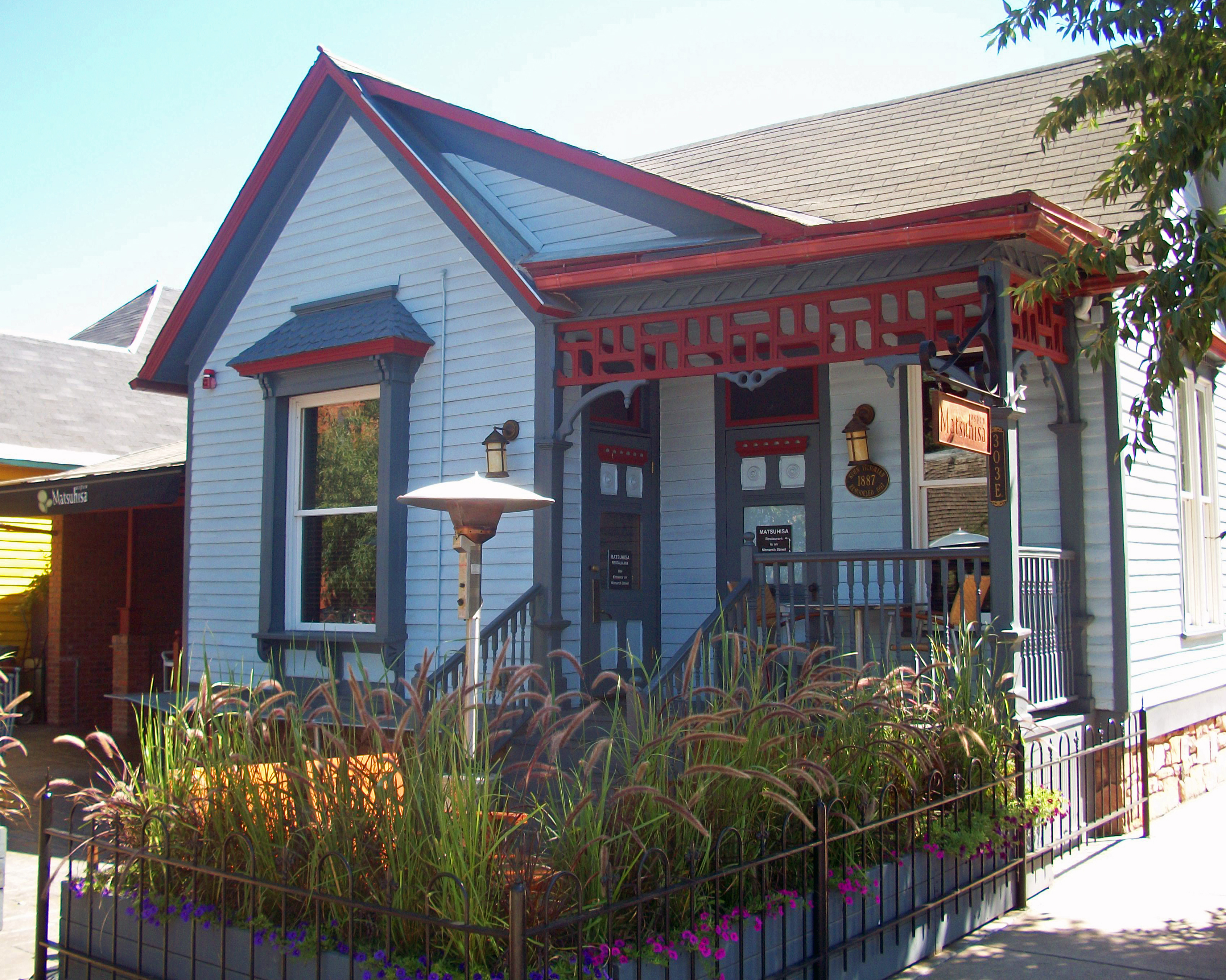 Thomas Hynes House, an old miner's cottage now a Japanese restaurant, Aspen, CO, USA